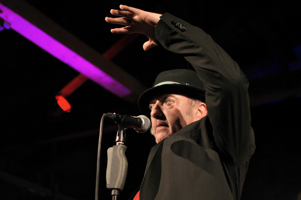 Pankow (German Band), Concert 2011-12-03 in Neubrandenburg, André Herzberg, frontman